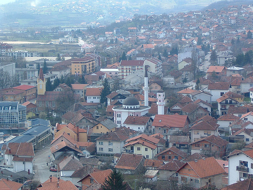 Panoramic view of Doboj|Doboj, Bosnia and Herzegovina, Republika Srpska